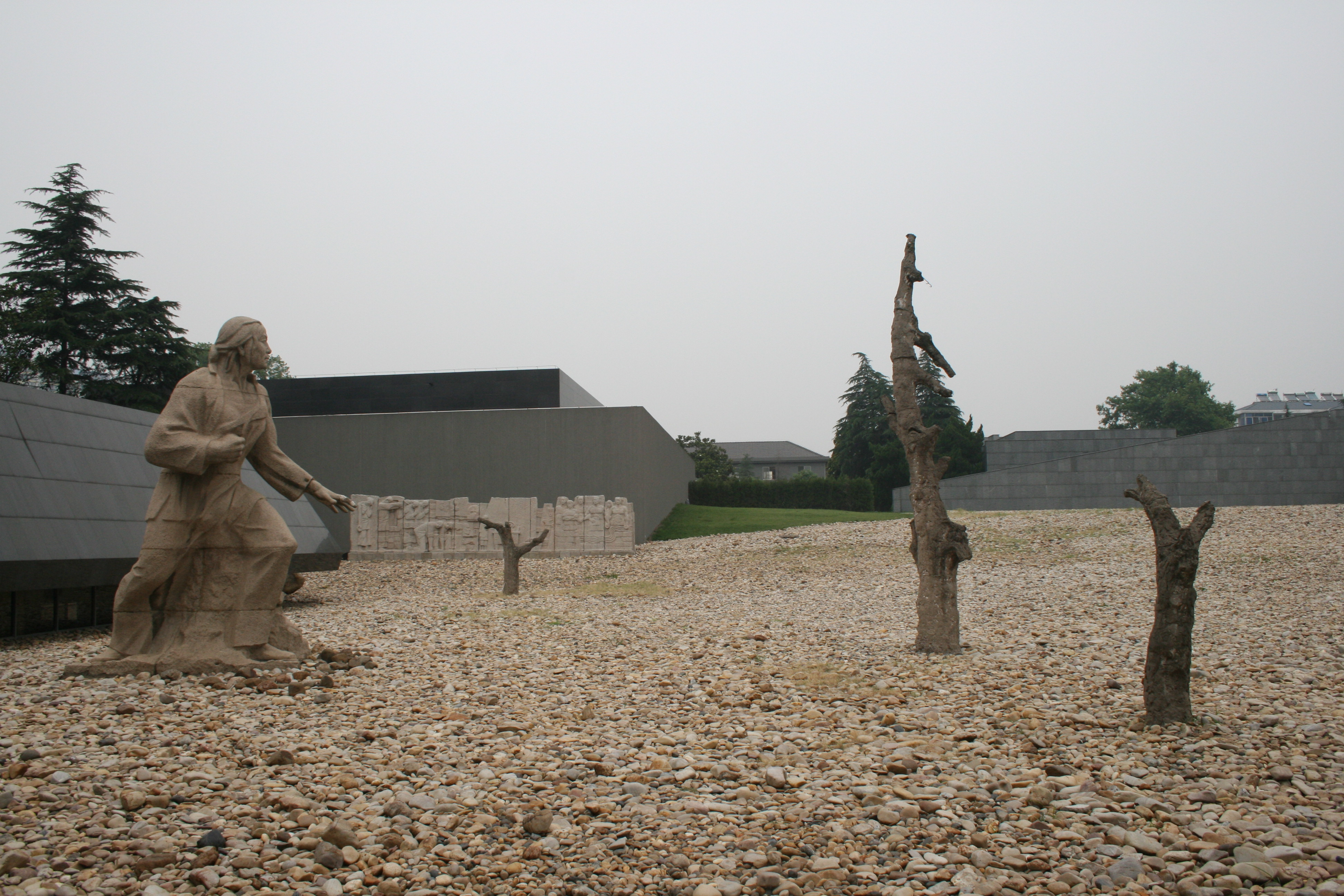 Site of 1937 Japanese atrocities known as the Rape of Nanjing. Complete indexed photo collection at .